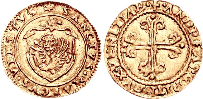 Italy, Venezia (Venice). Andrea Gritti. 1523-1538. AV 1/2 Scudo d’oro (1.67 g, 8h). Ornate cross within border Coat of arms. CNI VII 346; Papadopoli 16; Paolucci 4; Friedberg 1247. EF.